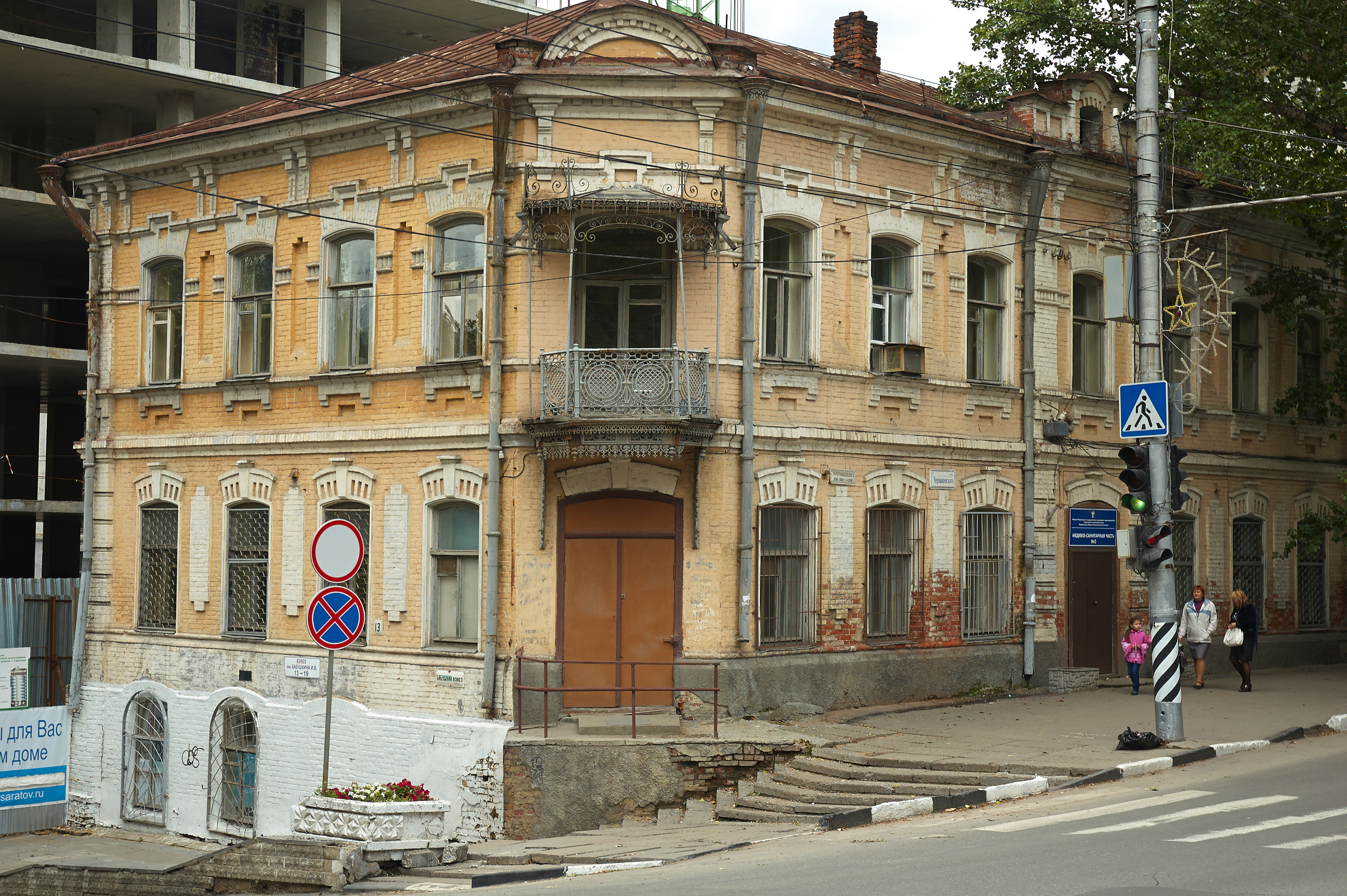 Babuschkin vzvoz in Saratov - 2011 year.